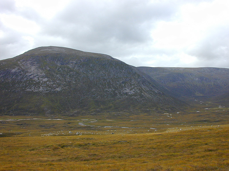 View towards Beinn Bhrotain, near to Carn a' Mhaim [hill or Mountain], Aberdeenshire, Great Britain. Looking down moderate slopes into Glen Dee, with the mountain rising beyond, and the remote Glen Geusachan visible on the right.